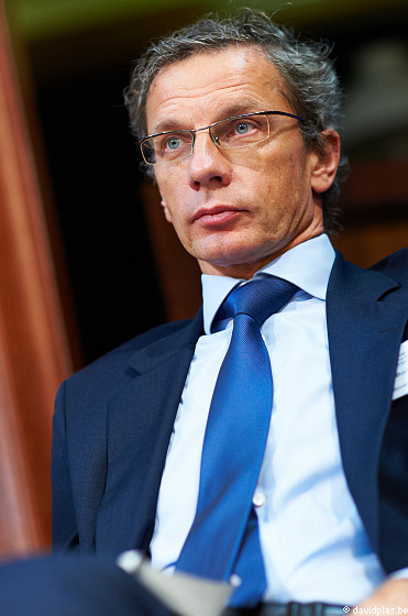 Boris Vujčić as Deputy Governor of the Croatian National Bank. He was made Governor 8 July 2012